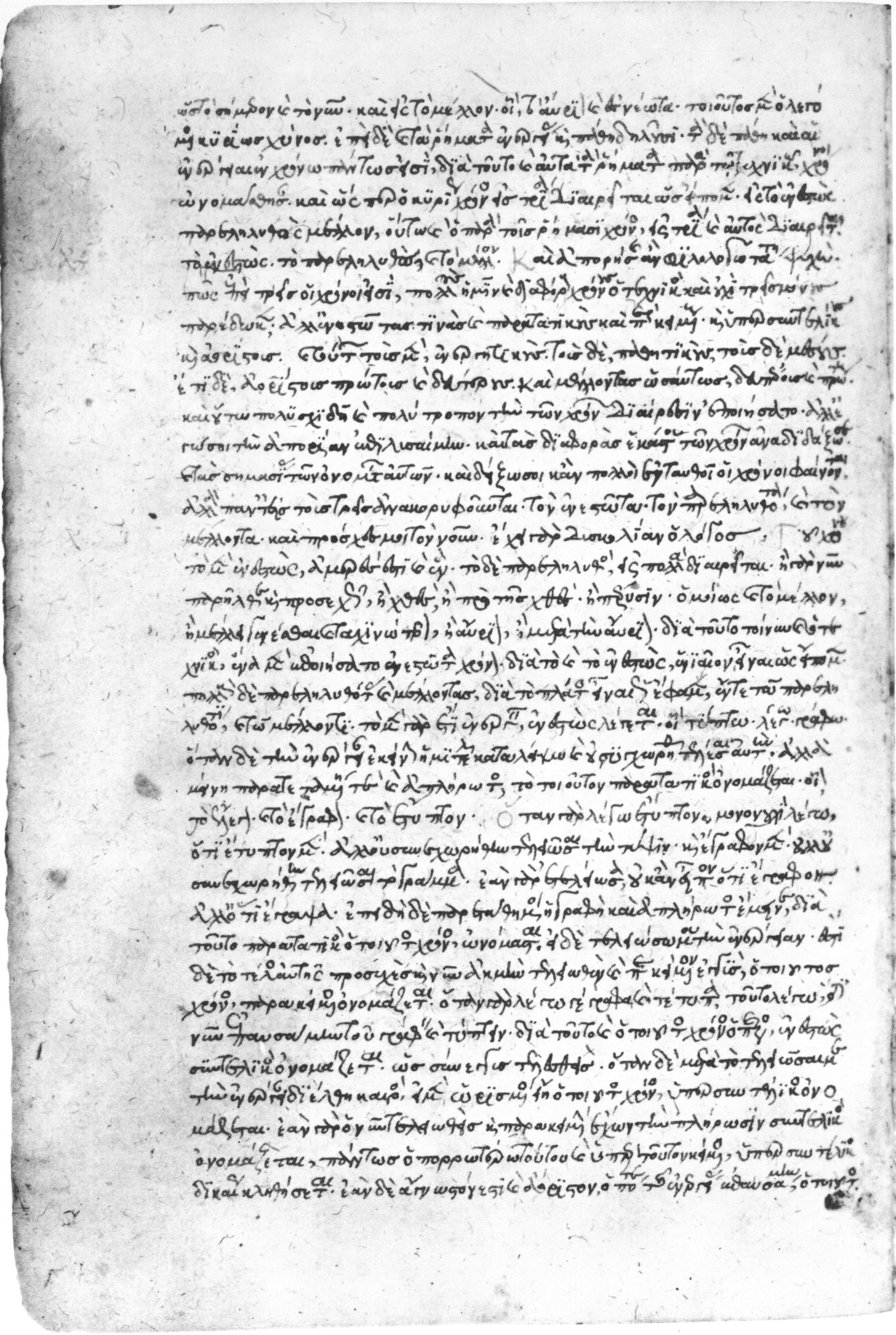 Theodore Prodromos, Enarratio in erotemata grammatica, in ms. Florence, Biblioteca Medicea Laurenziana, Plut. 55,7, fol. 64v.